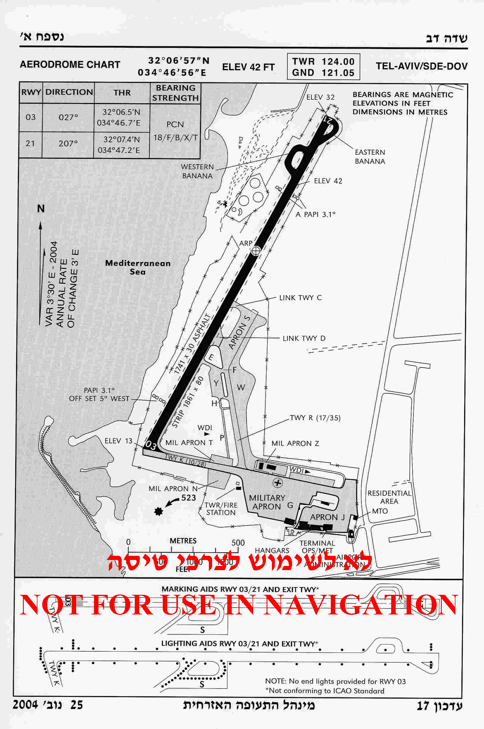 Sde-Dov Aerodrome chart (Tel Aviv, Israel)